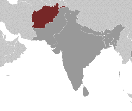 A map of South Asia with Afghanistan highlighted in brown